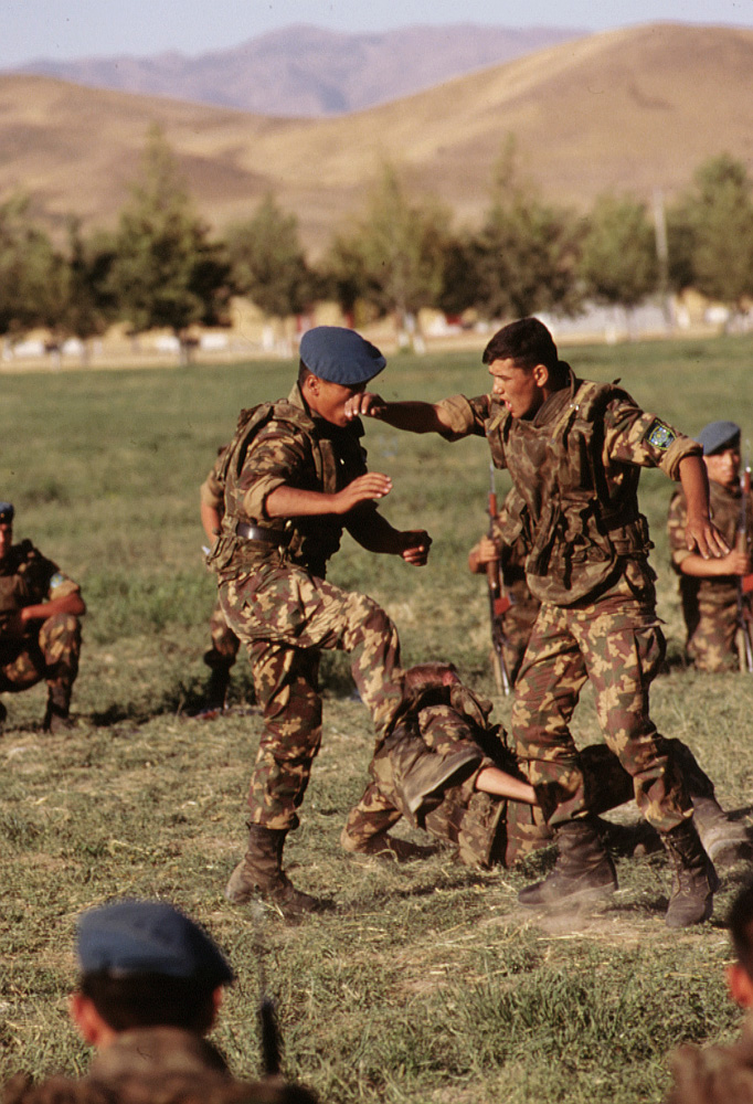 Uzbekistani soldiers practice hand to hand manuevers.